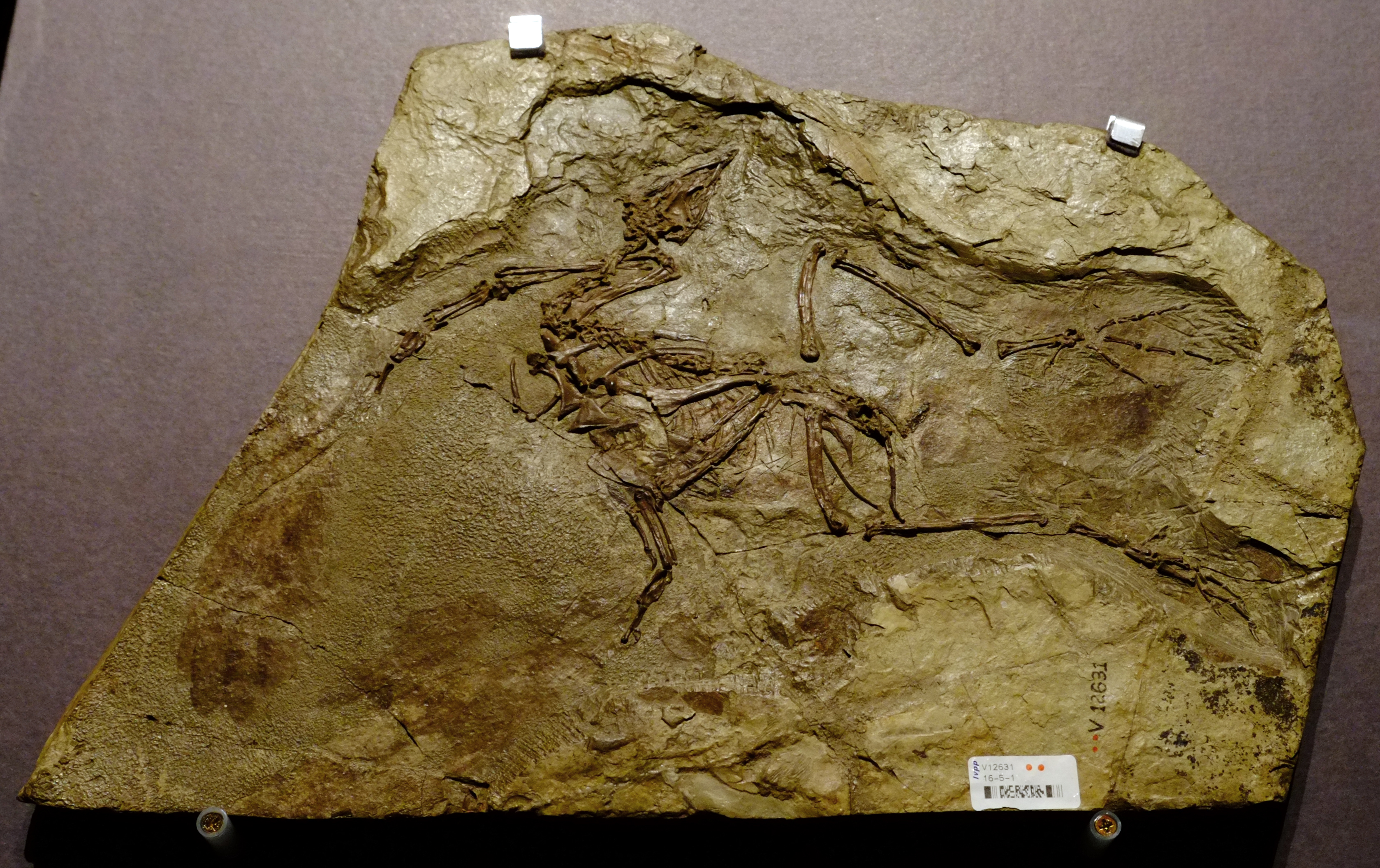 Yixianornis grabaui